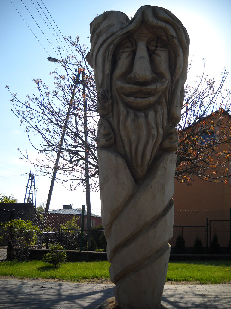 Statue of Kashubian mytical personage Nëczk located on the „Poczuj Kaszubskiego Ducha” tourist route (Niepoczołowice, Poland).